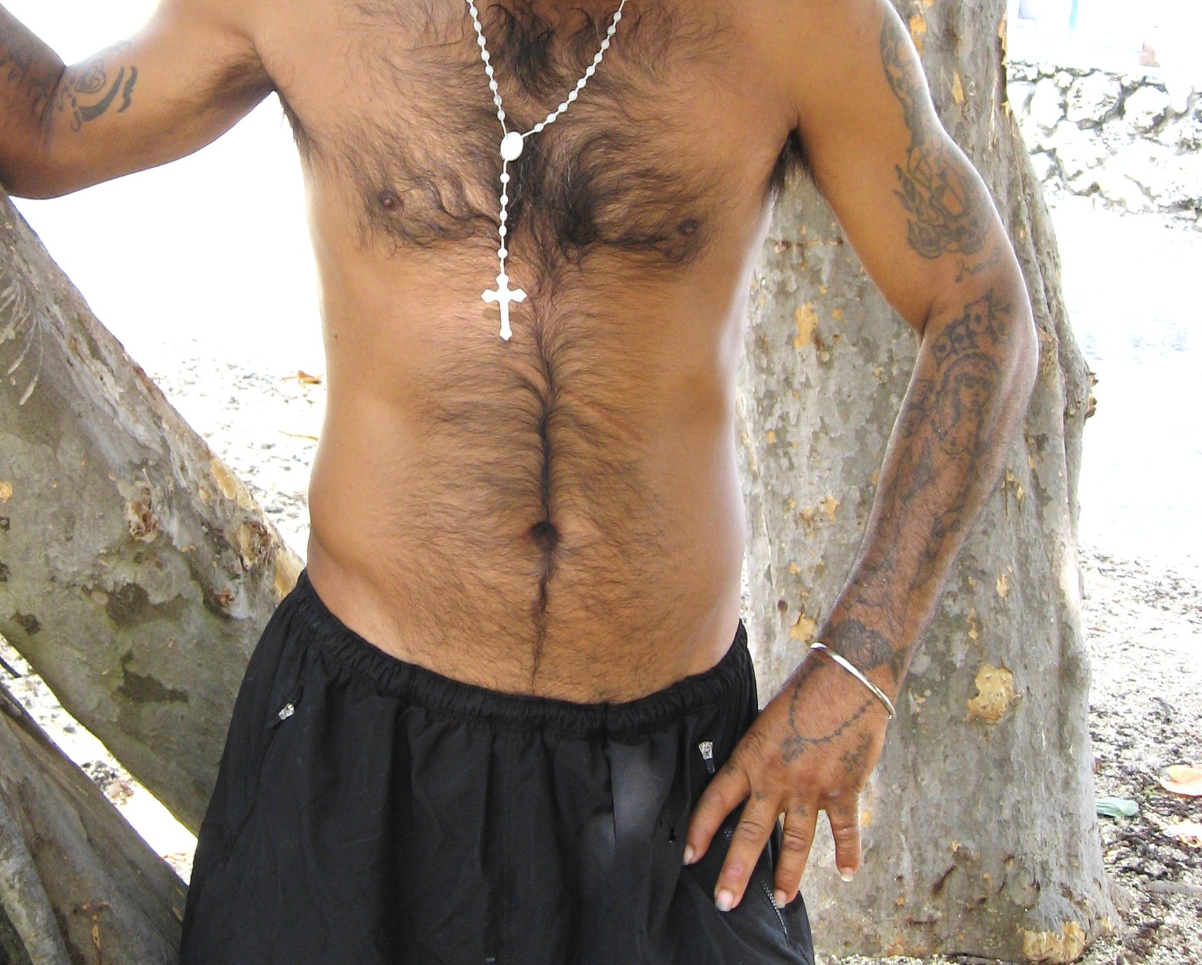 Check out the tattoos on his arm and hand. The rosary on the hand is my favorite but I also think the lady on his arm is pretty cool also. (Best seen large)